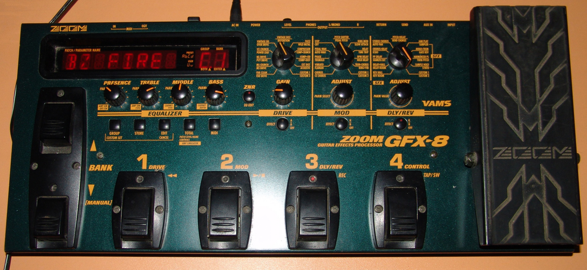 Zoom GFX-8 guitar effects processor Image created by myself (Nedko Arnaudov) using Sony DSC-F828 camera.